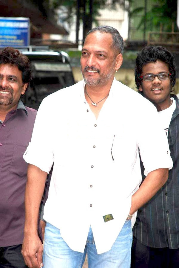 Nana Patekar at rehearsal of 'Namo Gurjari Namostute'